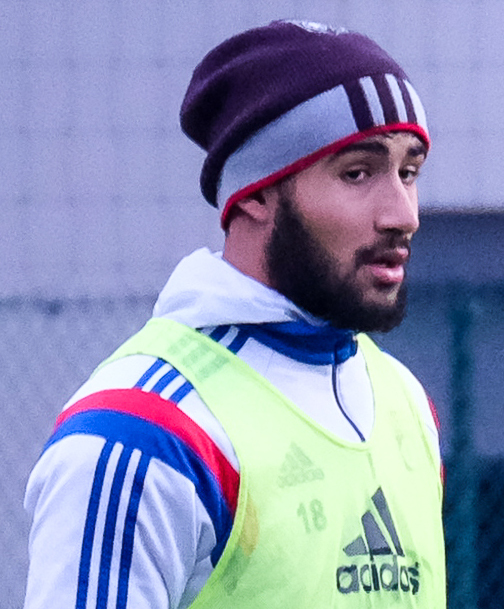 Nabil Fekir training with Olympique Lyonnais